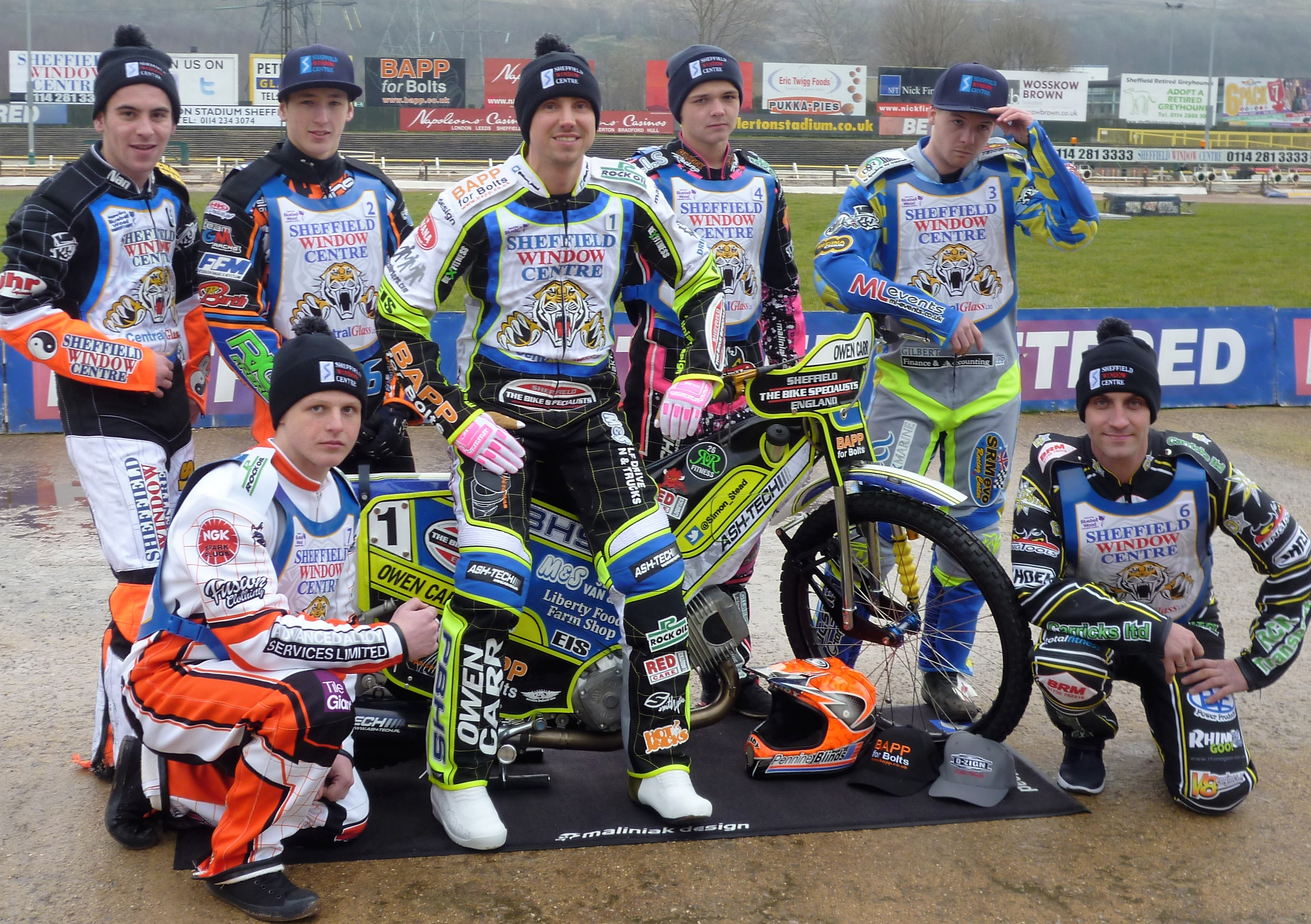 Sheffield Window Centre 'Tigers' 2016